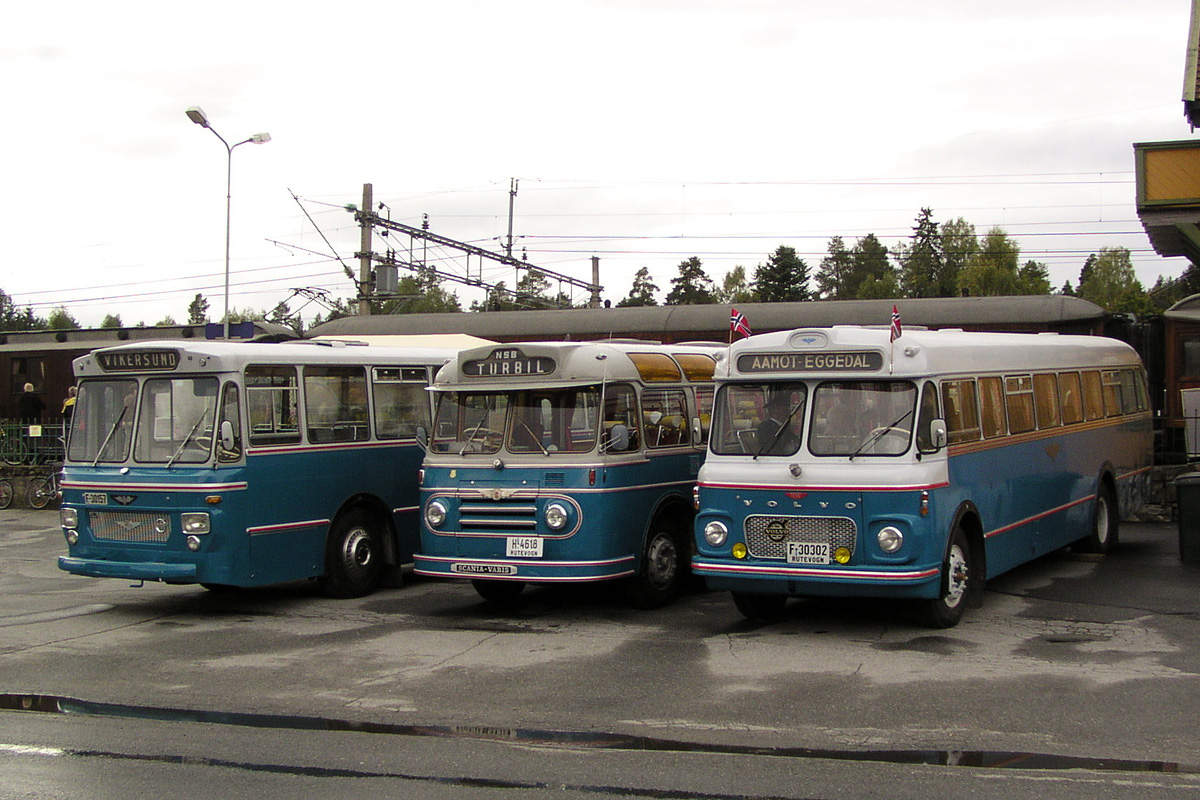 Historical buses from NSB Biltrafikk at Vikersund station, September 2004.